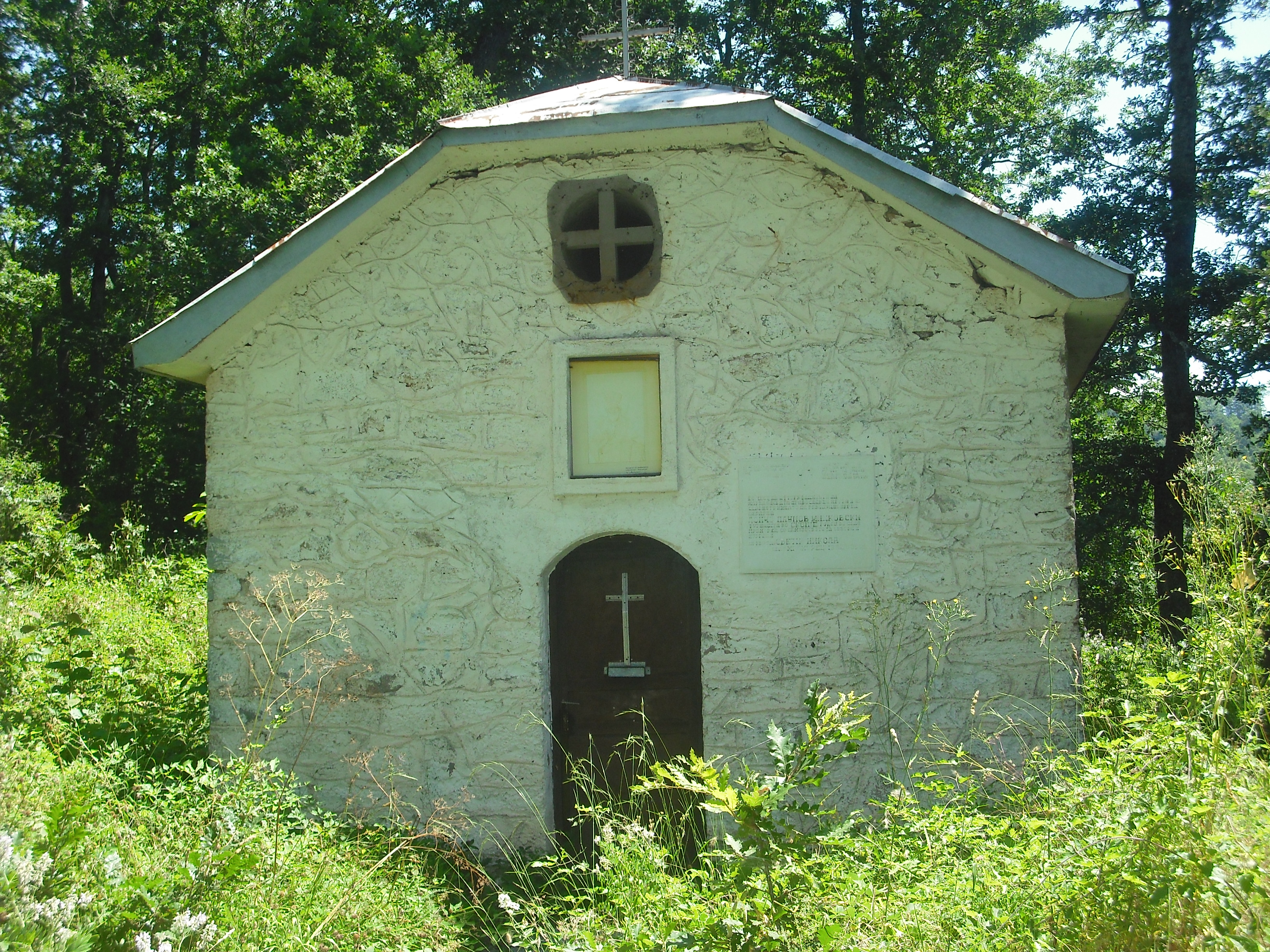 The church of St Nicholas in Belche near Mramorec, the municipality of Debarca, Republic of Macedonia